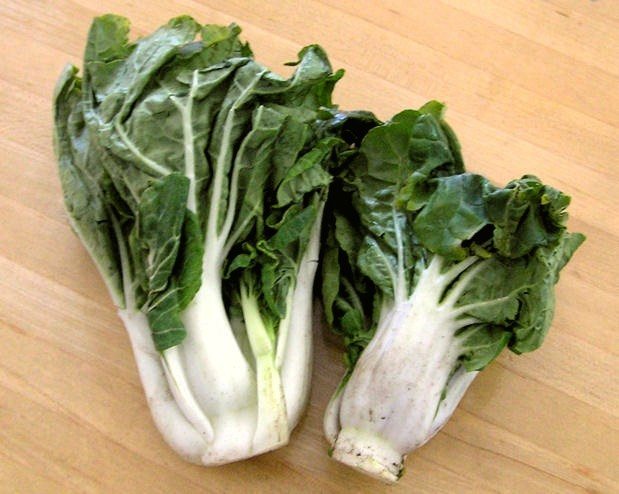 Wong Baak